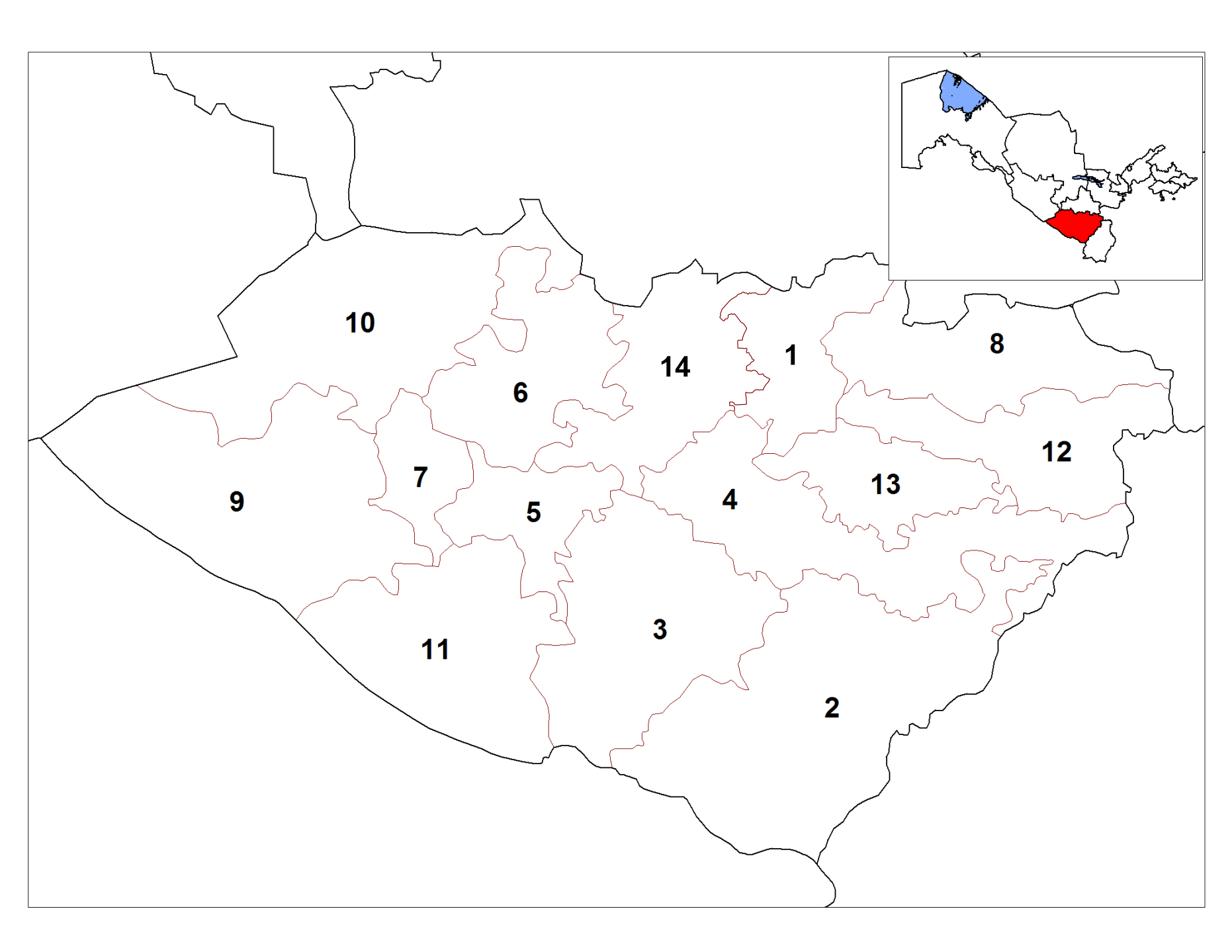 Map of the districts (tuman) of the province (viloyat) of Qashqadaryo in Uzbekistan.